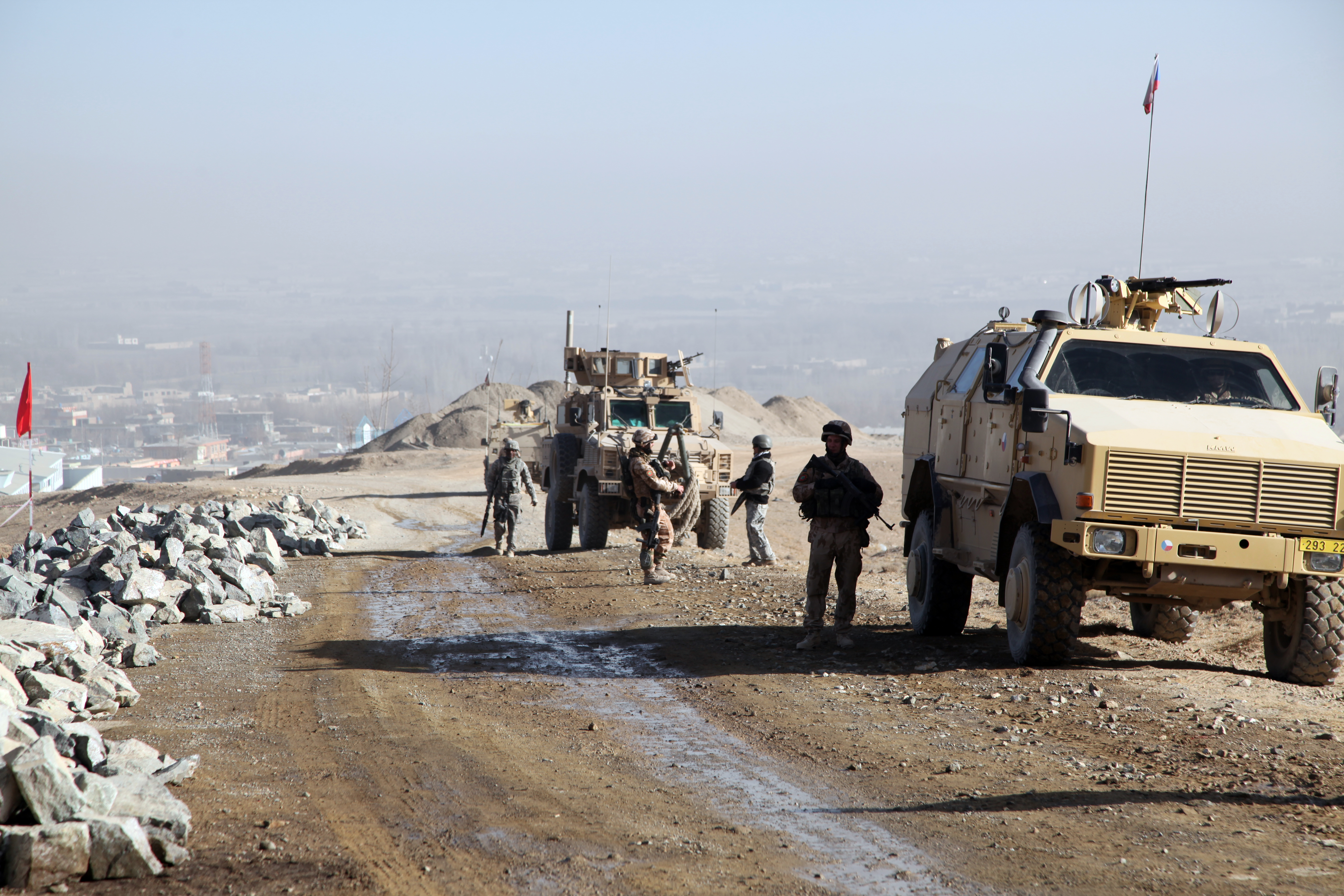 U.S. Soldiers and Czech soldiers pull security in Pul-e Alam, Logar province, Afghanistan, Dec. 4, 2010.